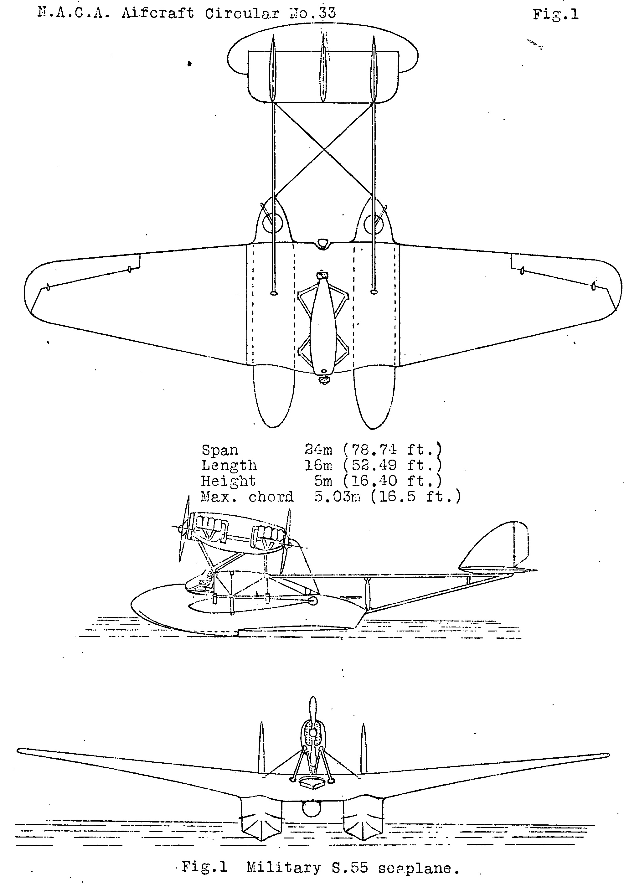 Savoia S.55 military 3-view drawing NACA Aircraft Circular No.33